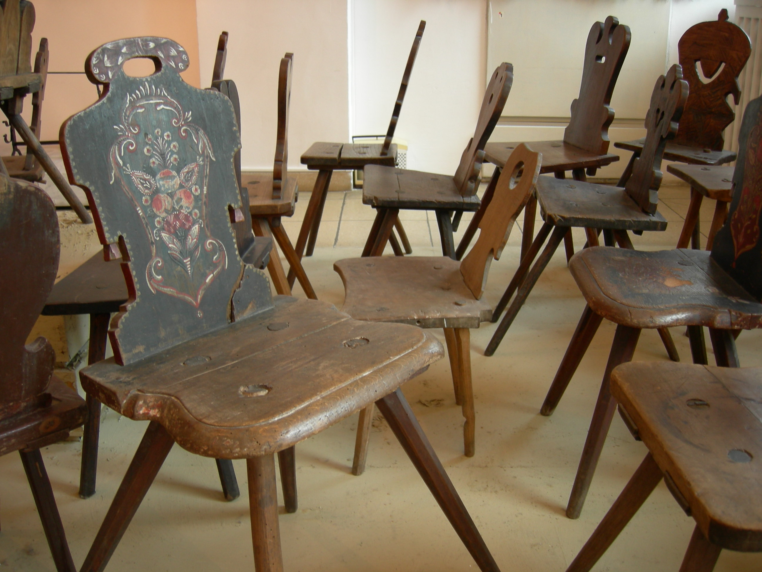 Chairs, Museum of the Romanian Peasant, Bucharest, Romania.